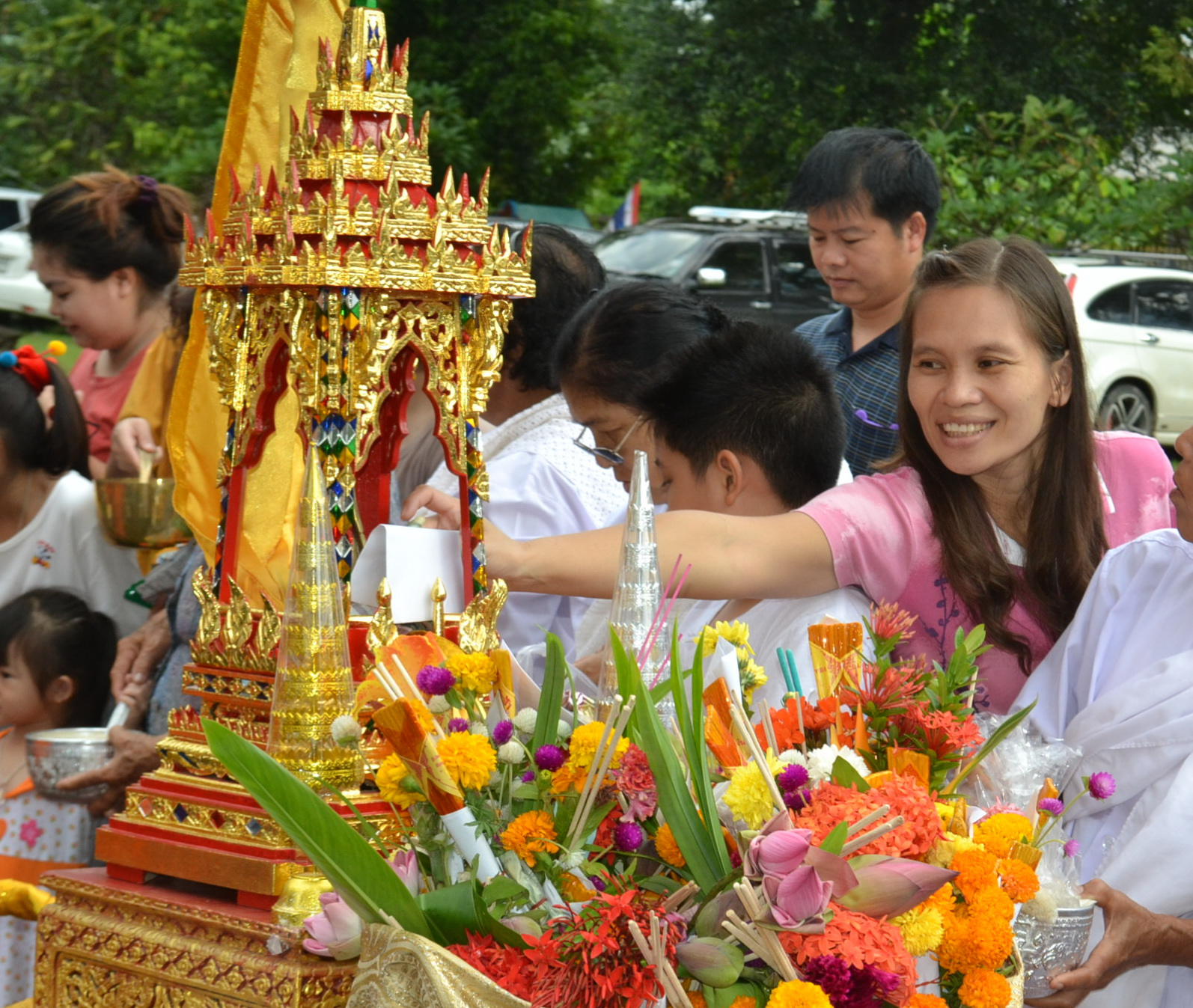 Tak Bat Devo Festival Location: Wat Khung Taphao Ban Khung Taphao, Khung Taphao subdistrict, Mueang Uttaradit, Uttaradit Province, Thailand.